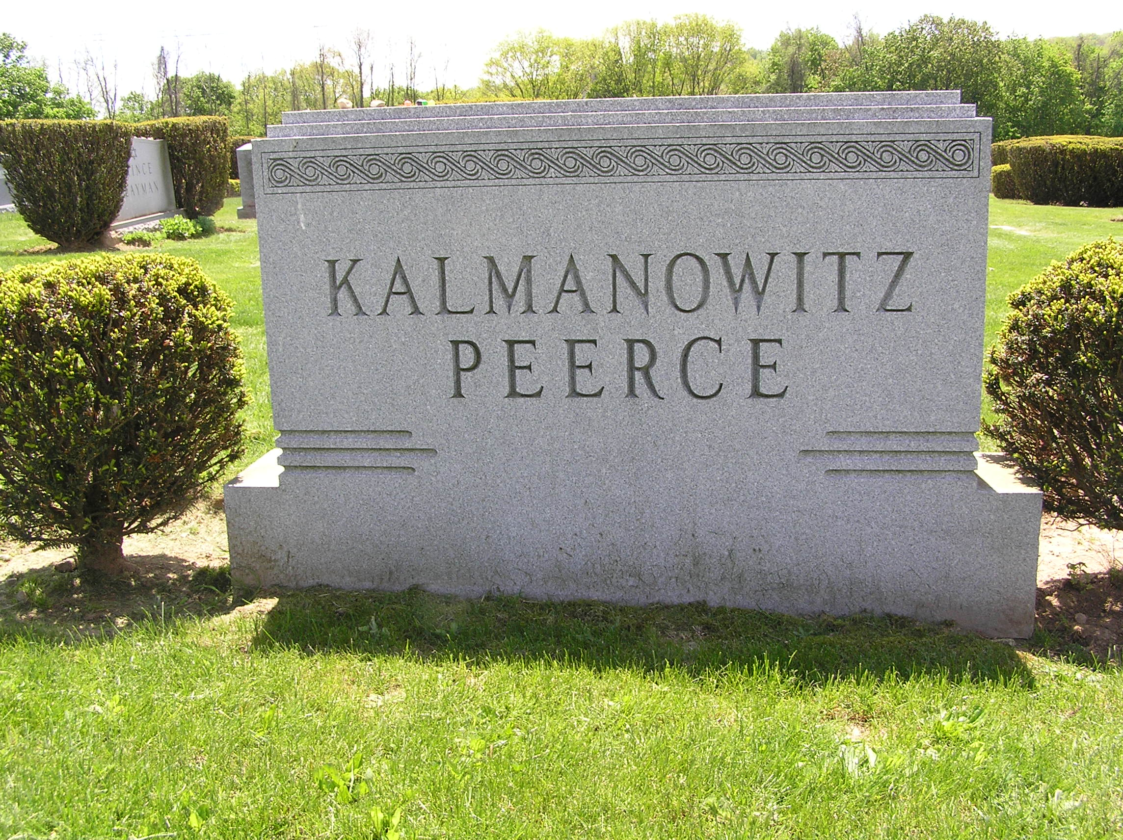 The headstone of Jan Peerce in Mount Eden Cemetery, Valhalla, NY